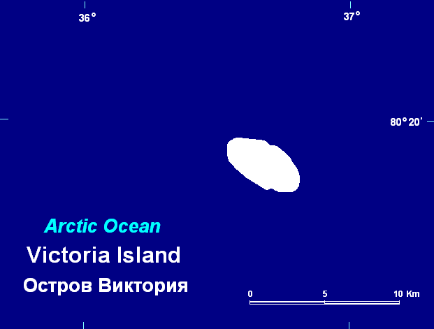 Map of Victoria Island, Russia